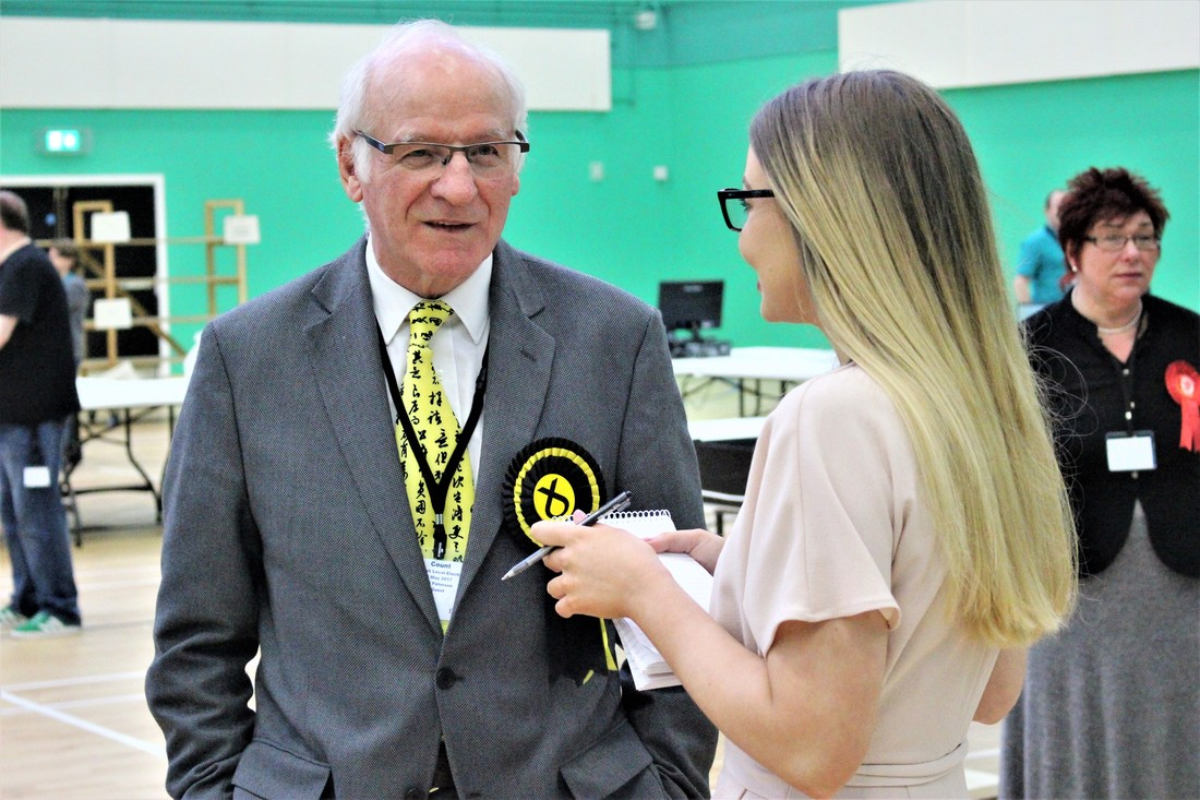 MSP Gil Paterson discusses the 2017 West Dunbartonshire Council local election result with Clydebank Post reporter Maxine McArthur.